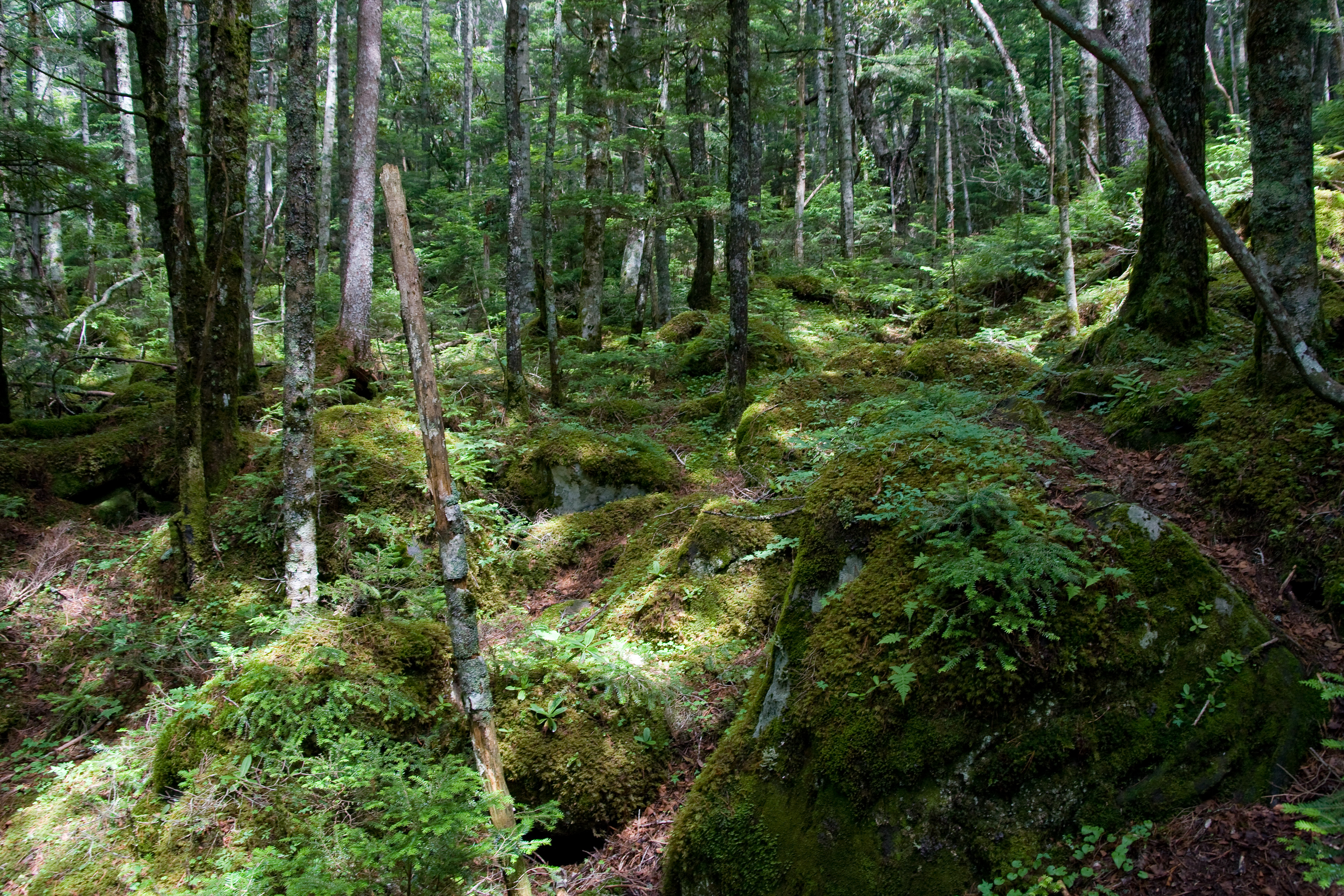 The forest in Mt.Amigasa, Yatsugatake, Yamanashi Pref., Japan.